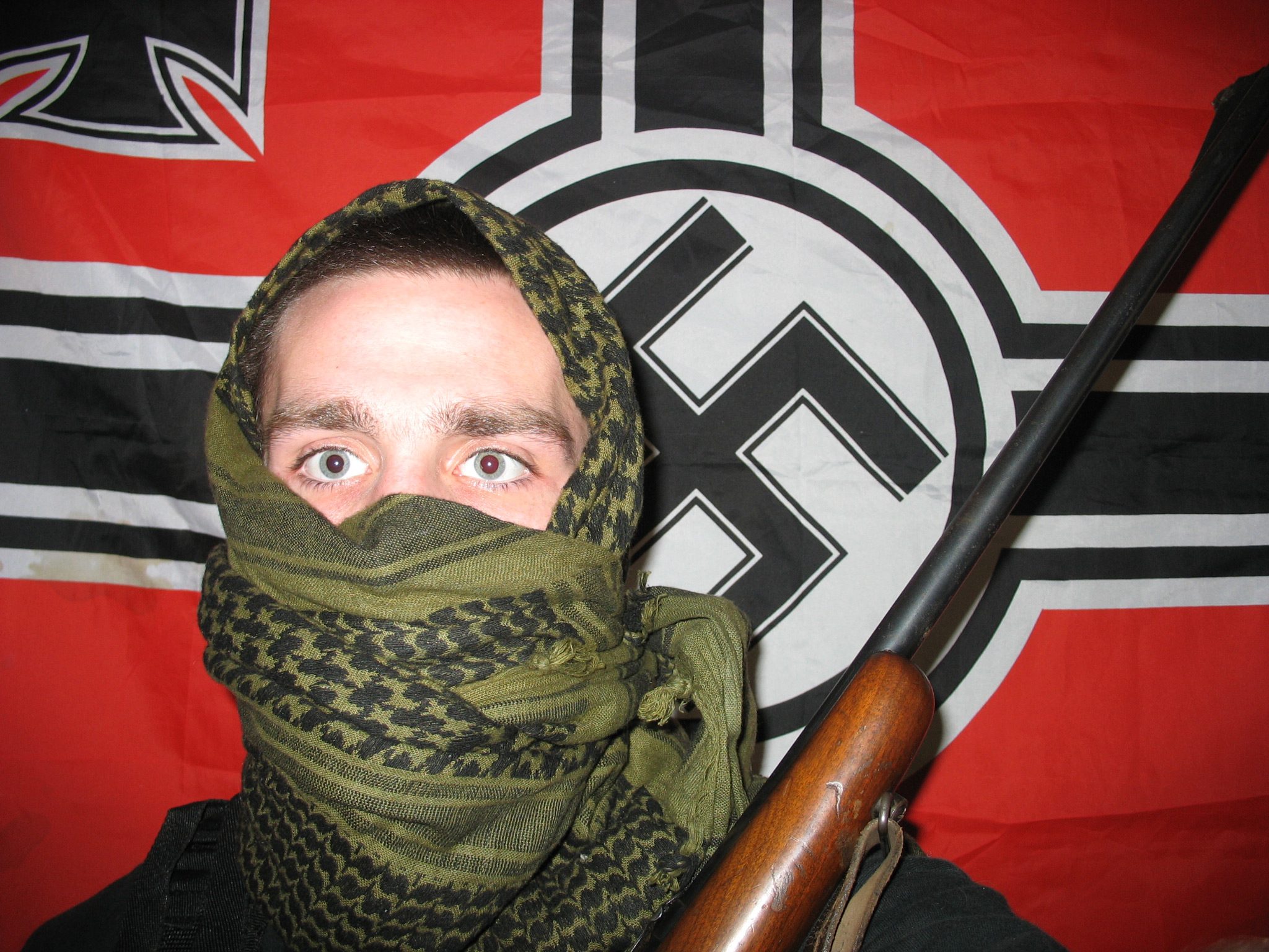 A militant neo nazi in USA holding a 30-.06 rifle.